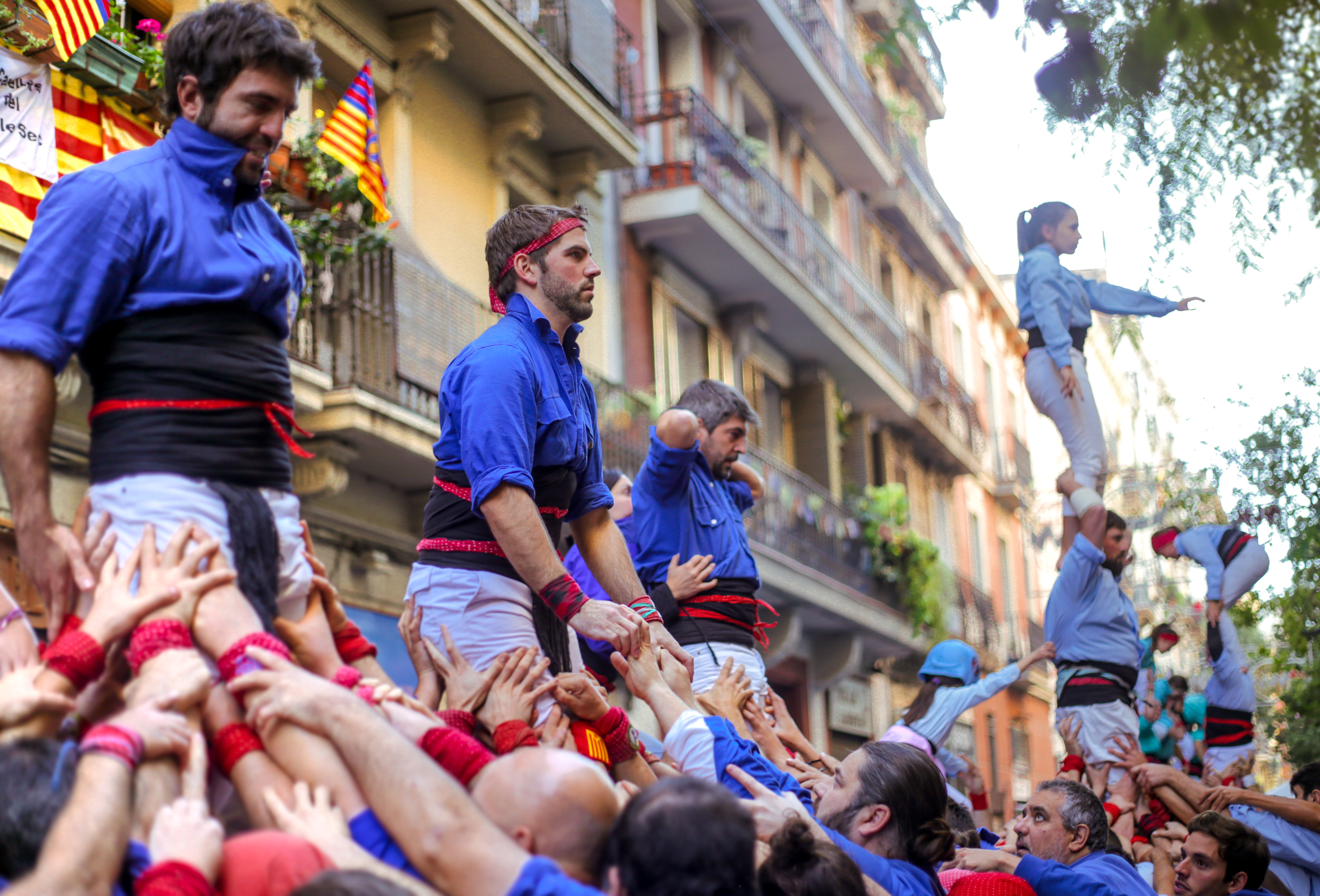 This is a photography of a Folklore festival in Spain (Wikidata id Q17301586).